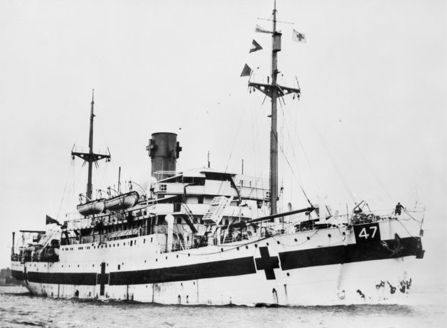 Sourced from: Copyright: The AWM record for this photo states that the copyright status is 'clear'. The photo was taken prior to May 1943. AWM Caption: THE AUSTRALIAN HOSPITAL SHIP CENTAUR, WHICH WAS SUNK BY A JAPANESE SUBMARINE OFF THE QUEENSLAND COAST ON 1943-05-14. PHOTOGRAPH PUBLISHED IN AUSTRALIA IN THE WAR OF 1939-45, MEDICAL, VOL 4, MEDICAL SERVICES OF THE RAN AND RAAF, PAGE 526. (SEE PRINT P0444/214/081 FOR WIDER IMAGE.)